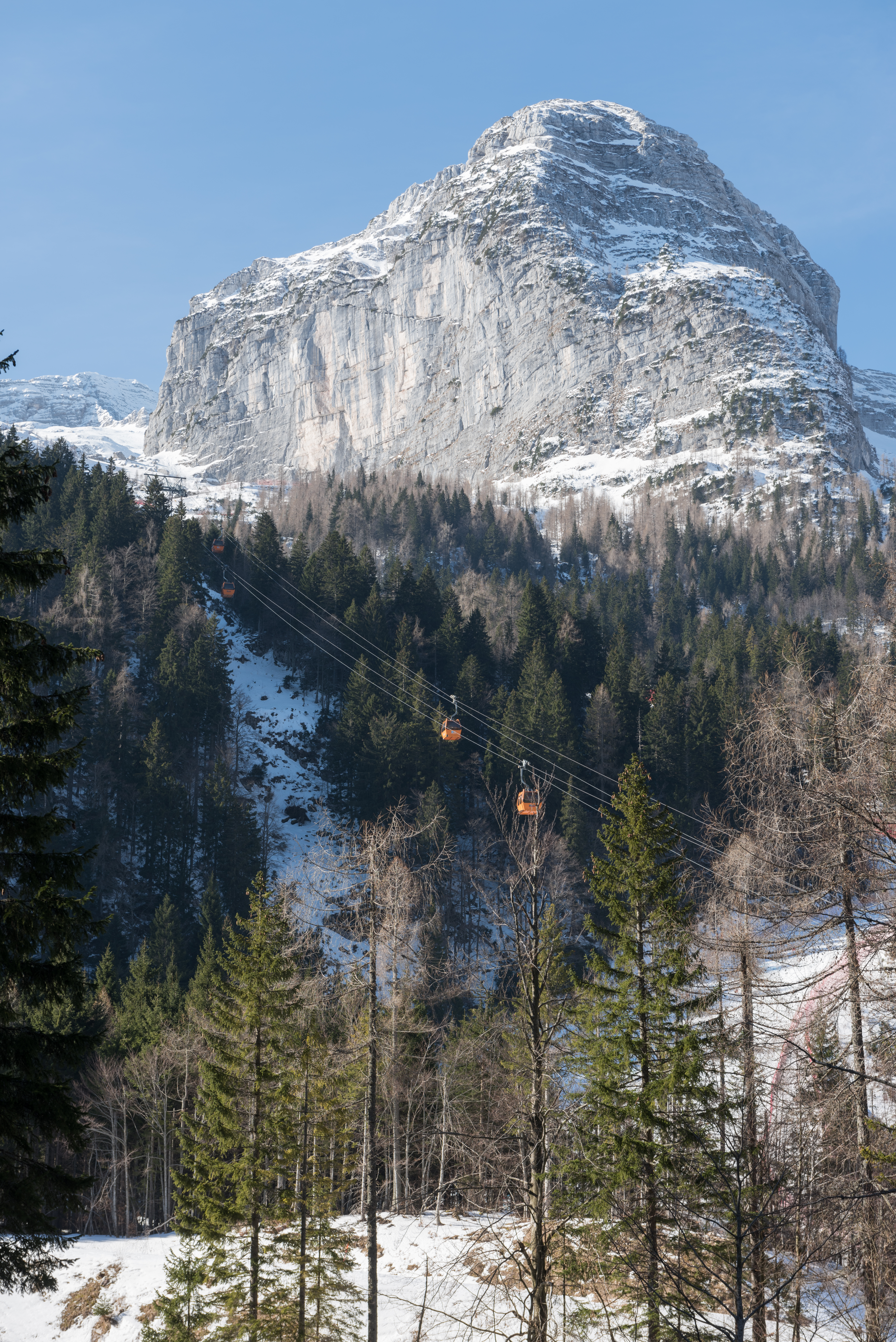 Monte Canin, Valle Rio del Lago, municipality Tarvisio, region Friuli-Venezia Giulia, Italy, EU